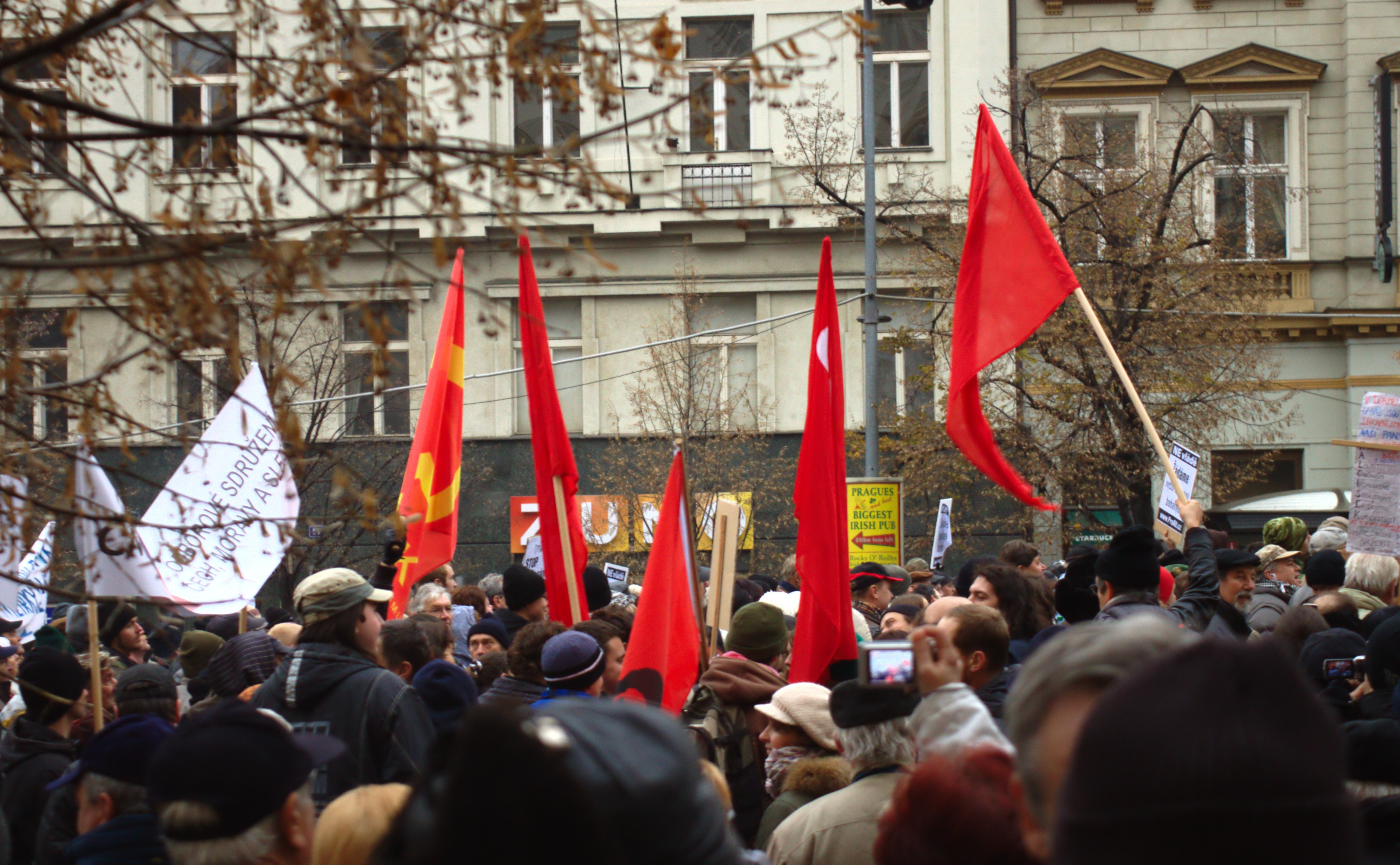 Labor unions protesting againts Czech govertnment reforms together with various left-wing organisations (communist youth). The event took place in Prague, Wenceslaus Square on 17th November 2011 Personality rights warningAlthough this work is freely licensed or in the public domain, the person(s) shown may have rights that legally restrict certain re-uses unless those depicted consent to such uses. In these cases, a model release or other evidence of consent could protect you from infringement claims.